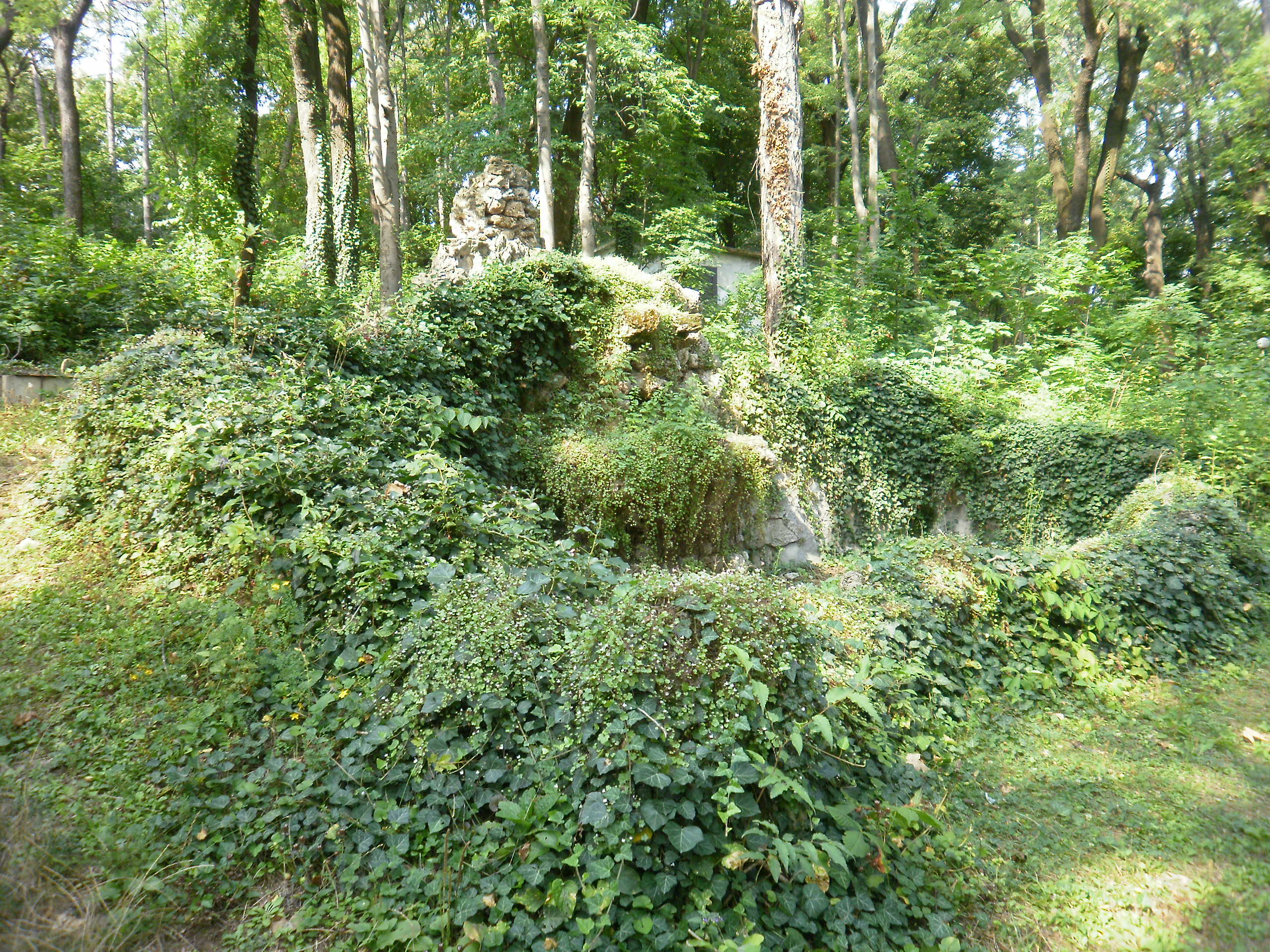 Park Scobelev, Pleven, Bulgaria.